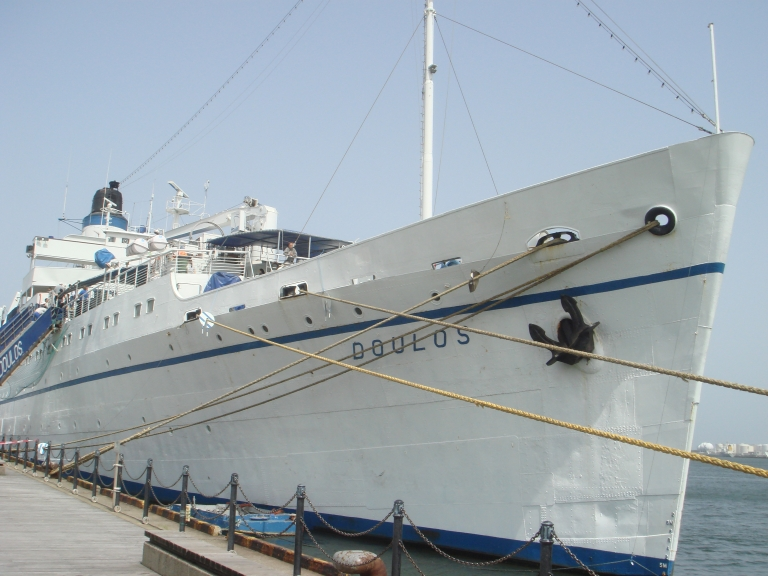 MV Doulos